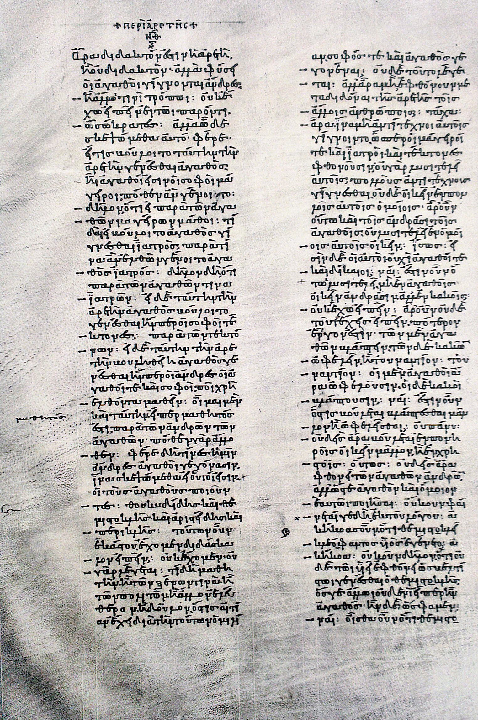 Page of the Codex Parisinus graecus 1807. Dialogue Περὶ ἀρετῆς.